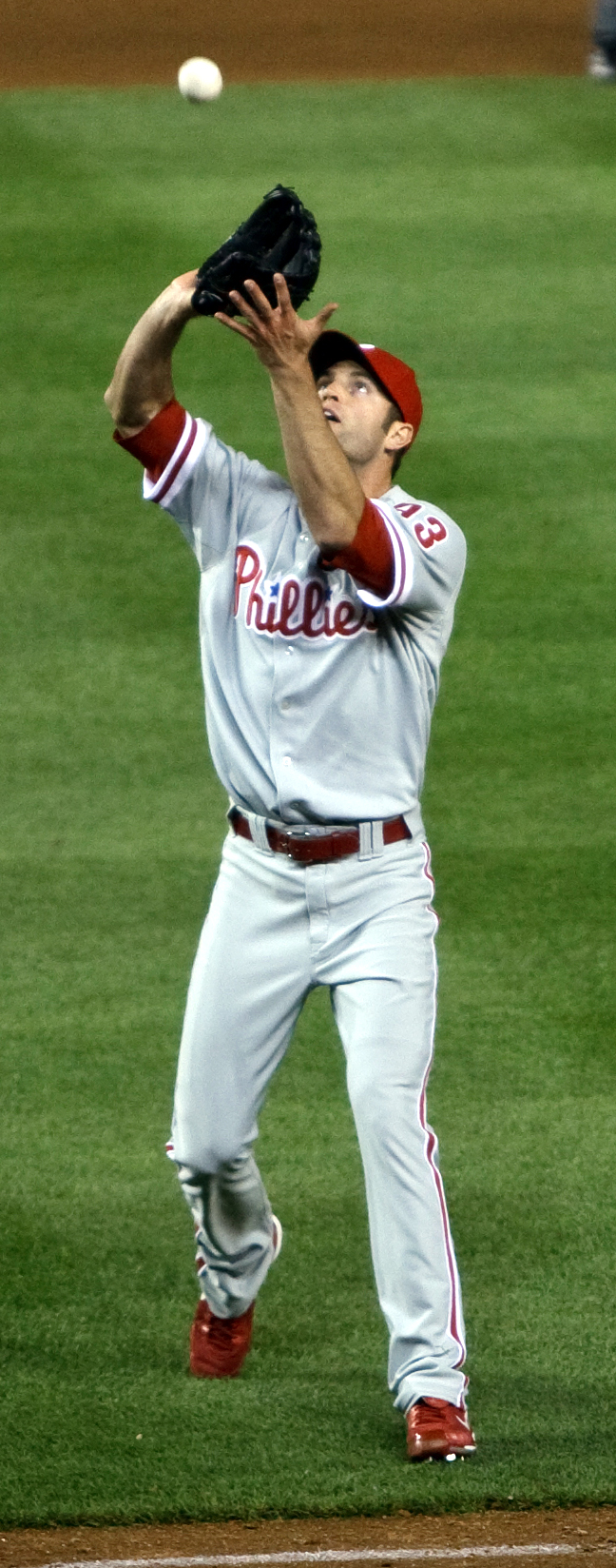 Description J. A. Happ fielding a popup Date16 April 2009, 21:34:27SourceFile:JAHapp2.jpgAuthororiginally on Flickr herePermission(Reusing this file) CC-BY Other versions File:JAHapp2.jpg 00:30, 10 July 2009 . . Killervogel5 . . 648×1,648 (842 KB) J. A. Happ fielding a popup